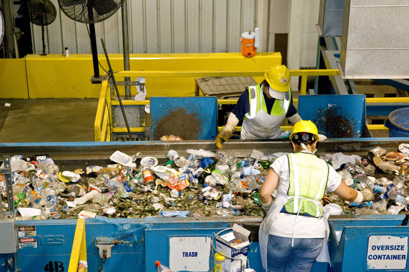 Workers in the Recycling Center (Materials Recovery Facility) at the Shady Grove Transfer Station, Montgomery County, Maryland